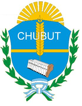 Coat of arms of Chubut Province, Argentina.